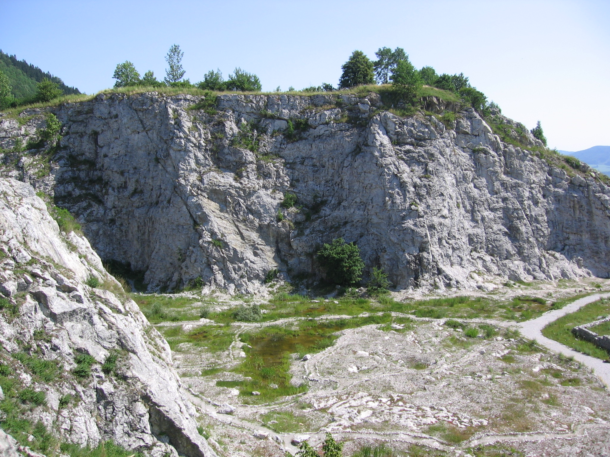 Botanic garden and arboretum in Štramberk, Czech Republic